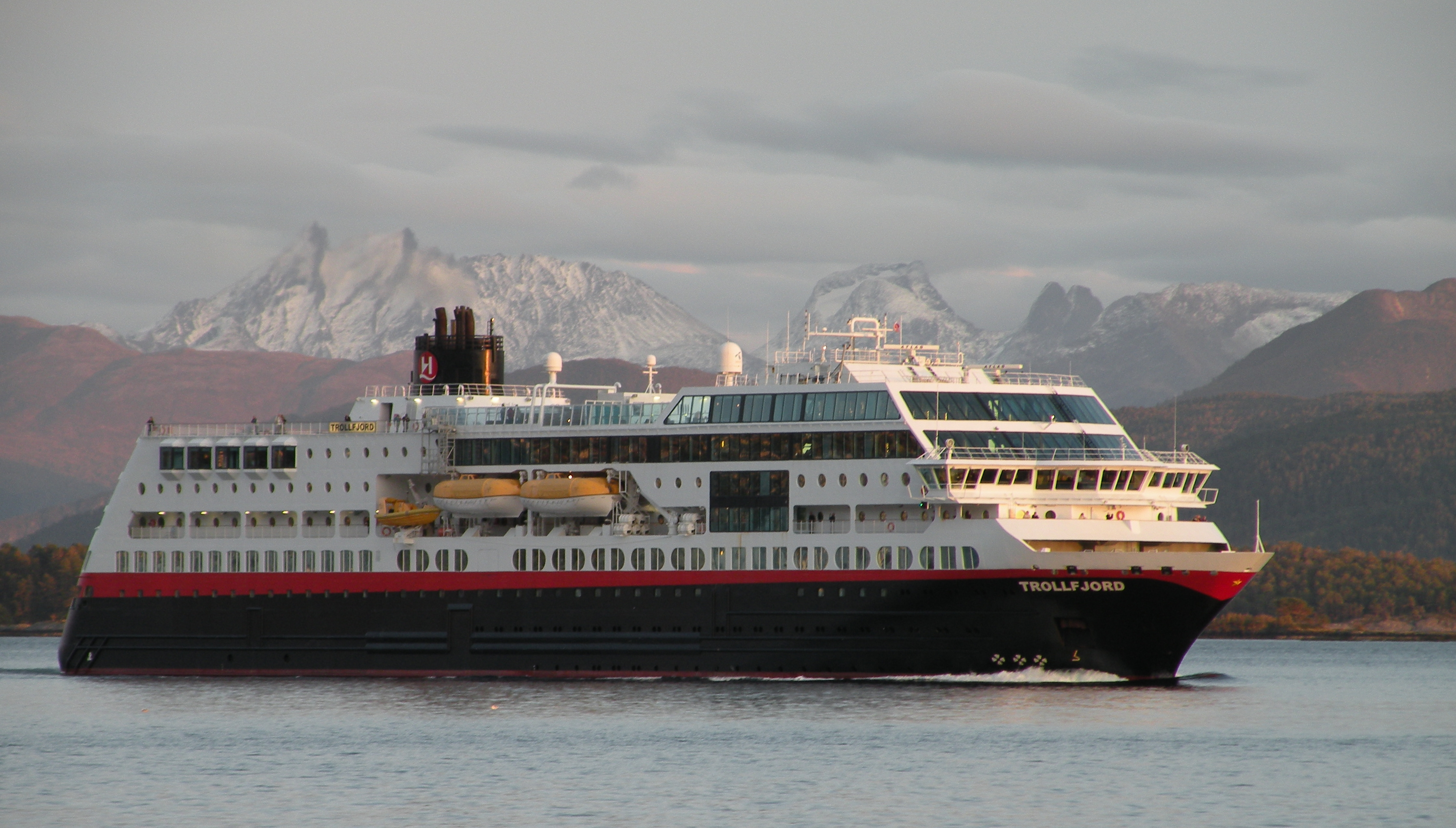 Norwegian coastal express ship (hurtigruten) MS Trollfjord in Moldefjord